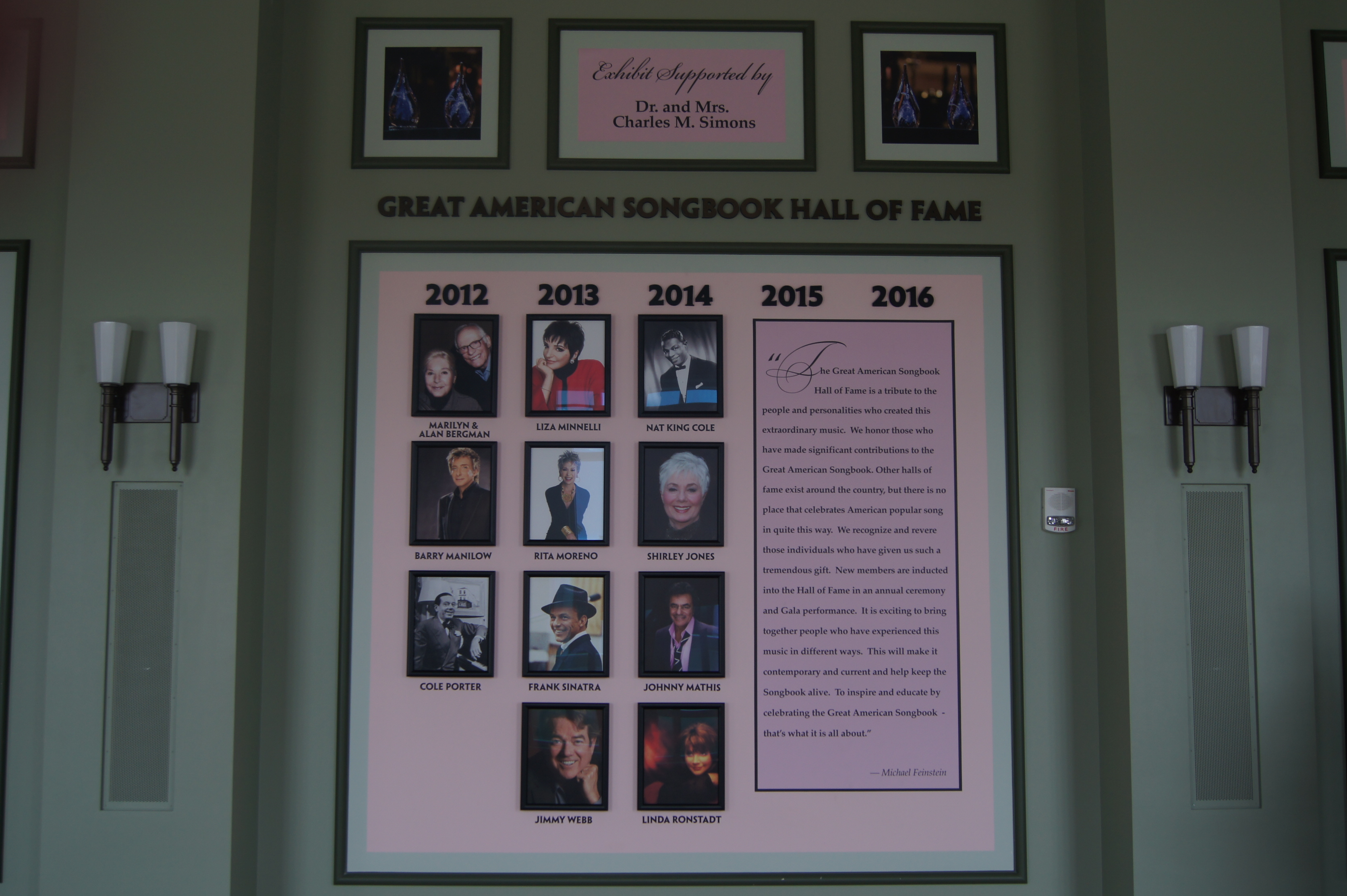 The Great American Songbook Hall of Fame exhibit is housed in the Shiel Sexton Songbook Lounge at The Palladium.